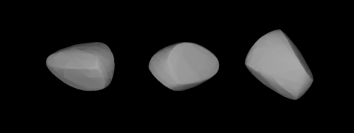 A three-dimensional model of 277 Elvira that was computed using light curve inversion techniques.